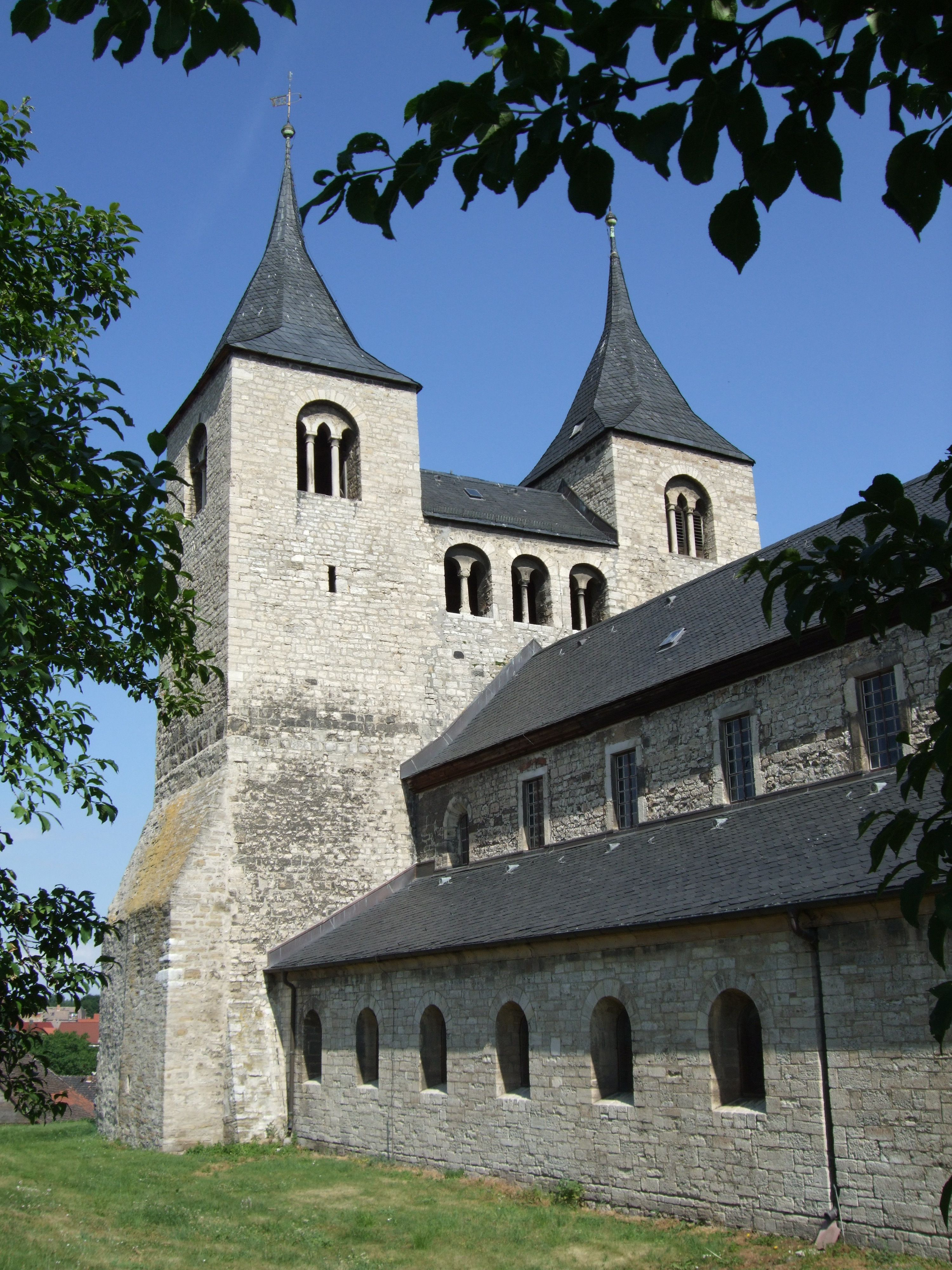 Collegiate churche in Frose, Sachsen-Anhalt, Germany. Romance, view from southeast